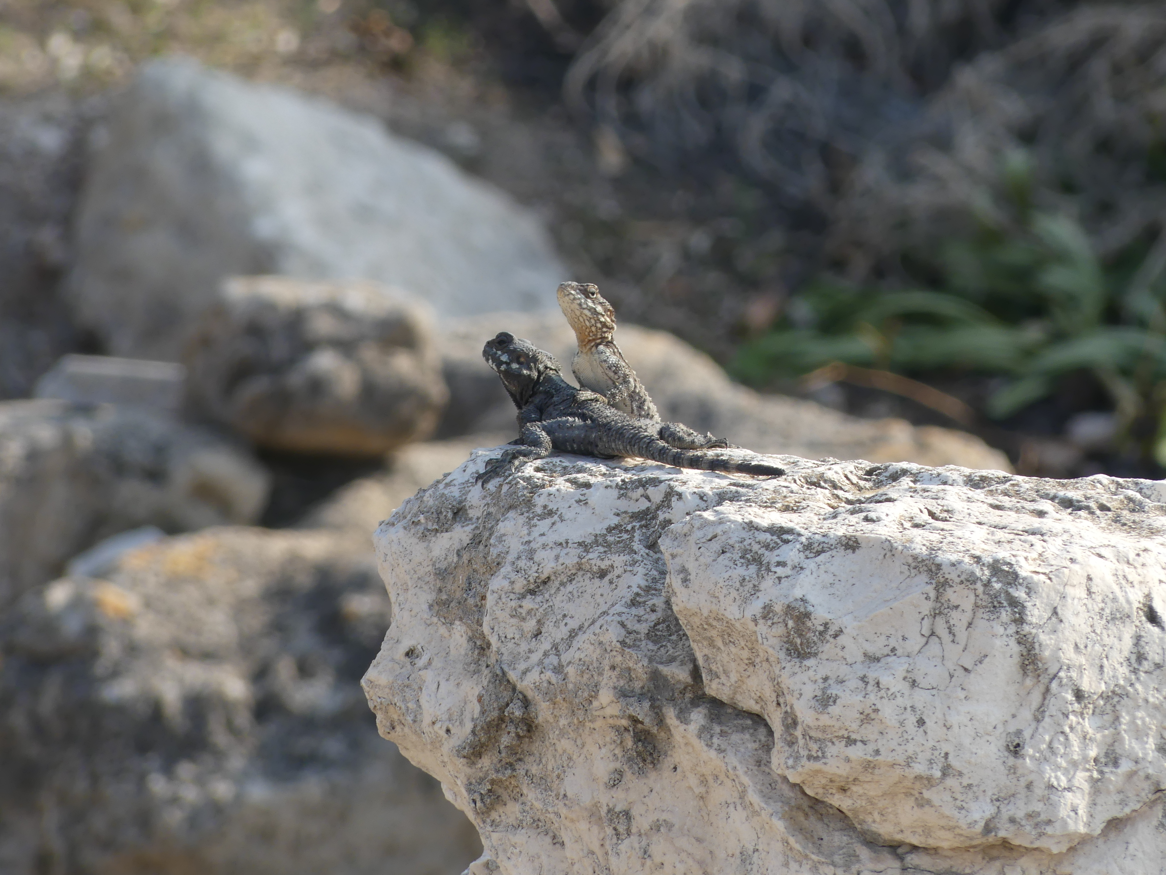 An Agama lizard couple sitting on ancient ruins in the archaeological Al Mina site of Tyre/Sour, Southern Lebanon